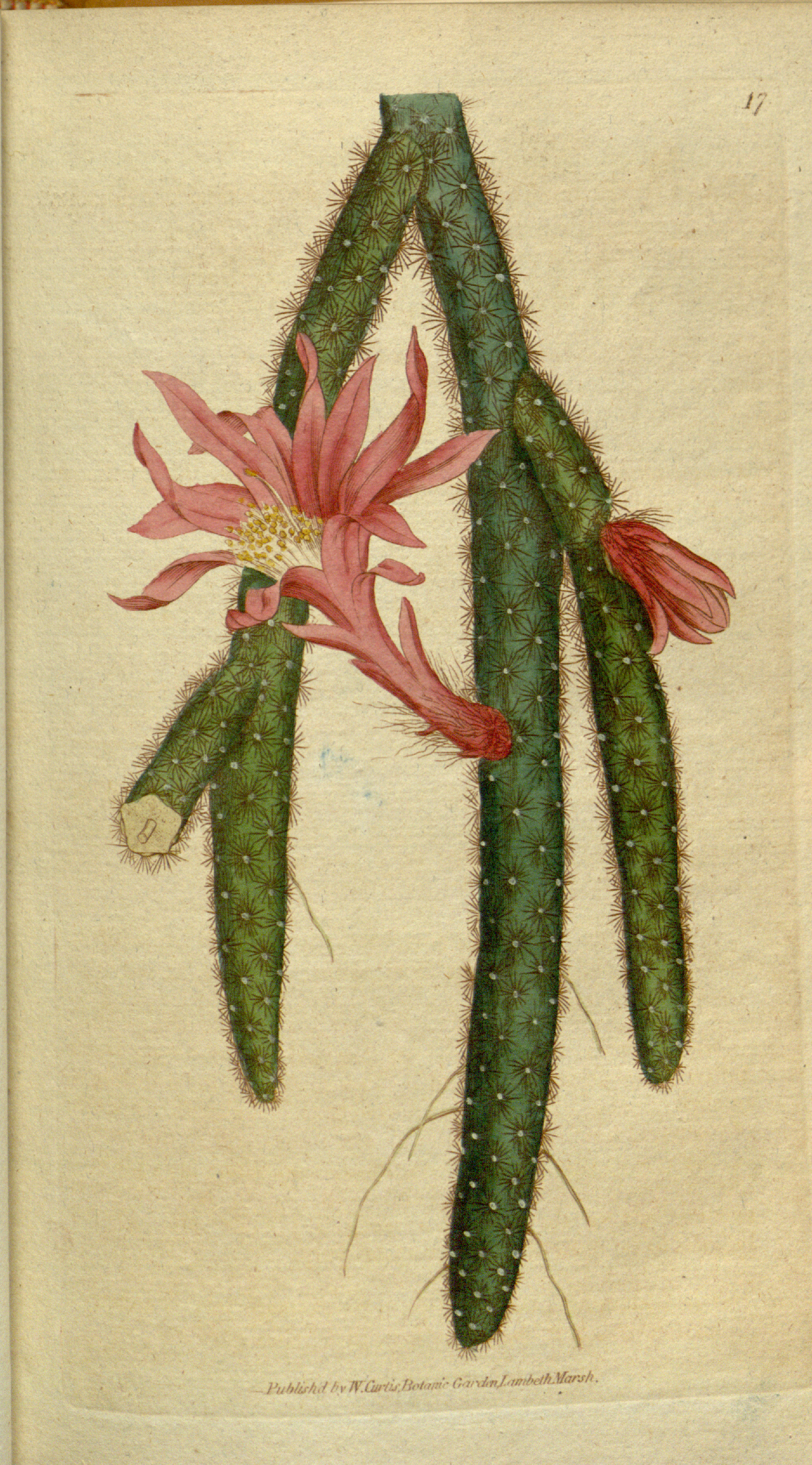 This is Plate 17 from The Botanical Magazine, Volume 1. Disocactus flagelliformis